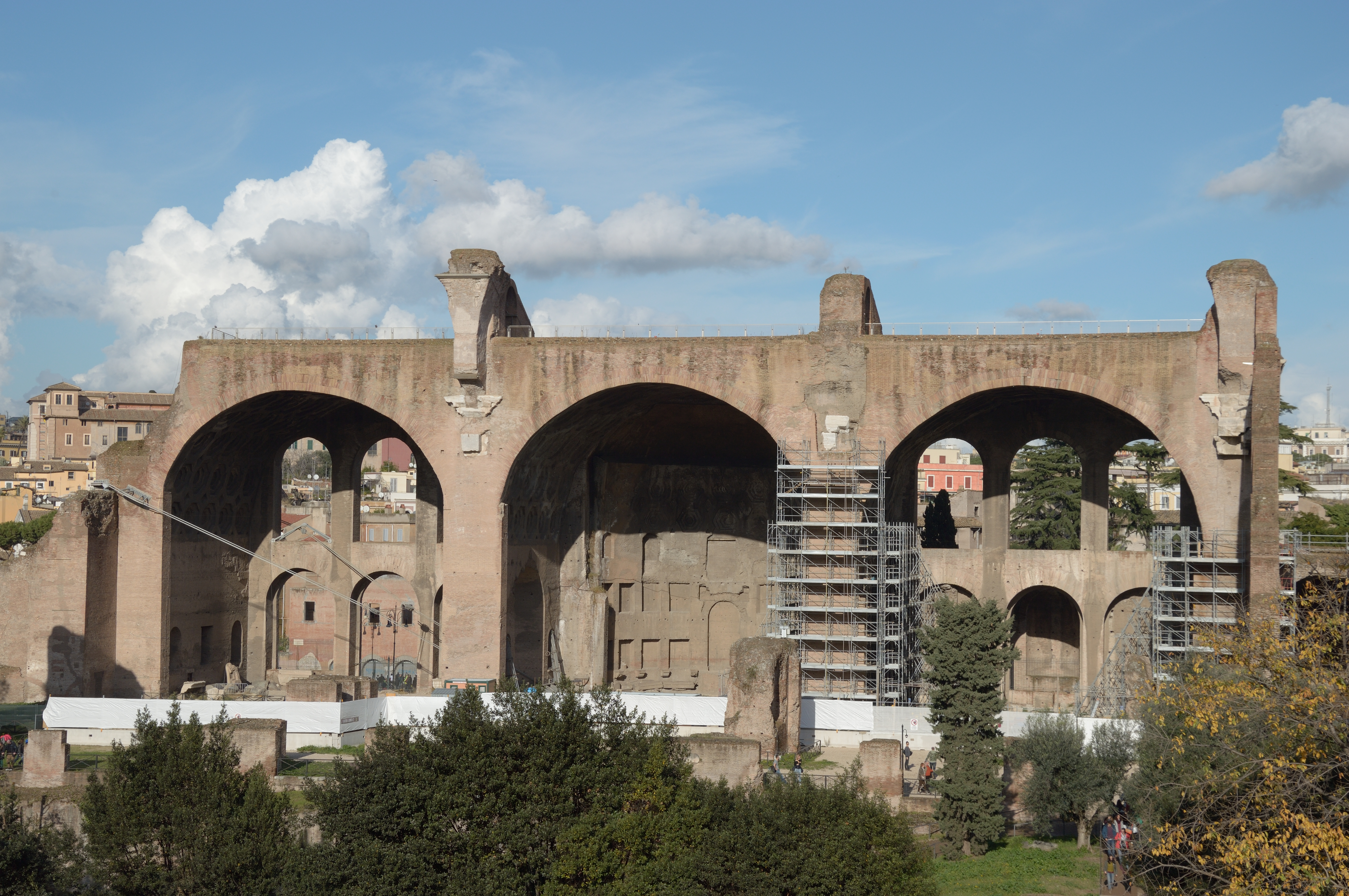 Basilica of Maxentius